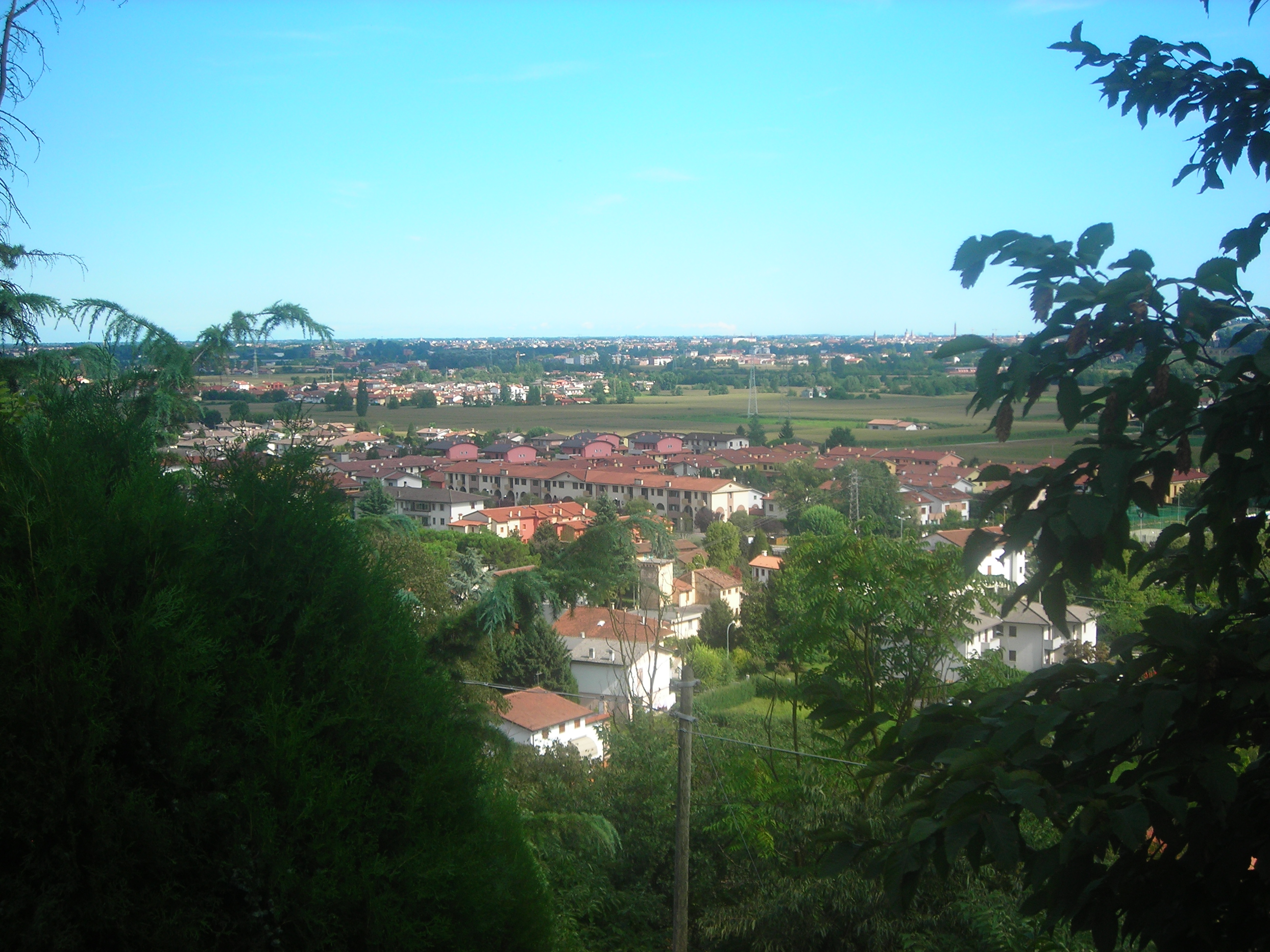 Landscape of Costabissare